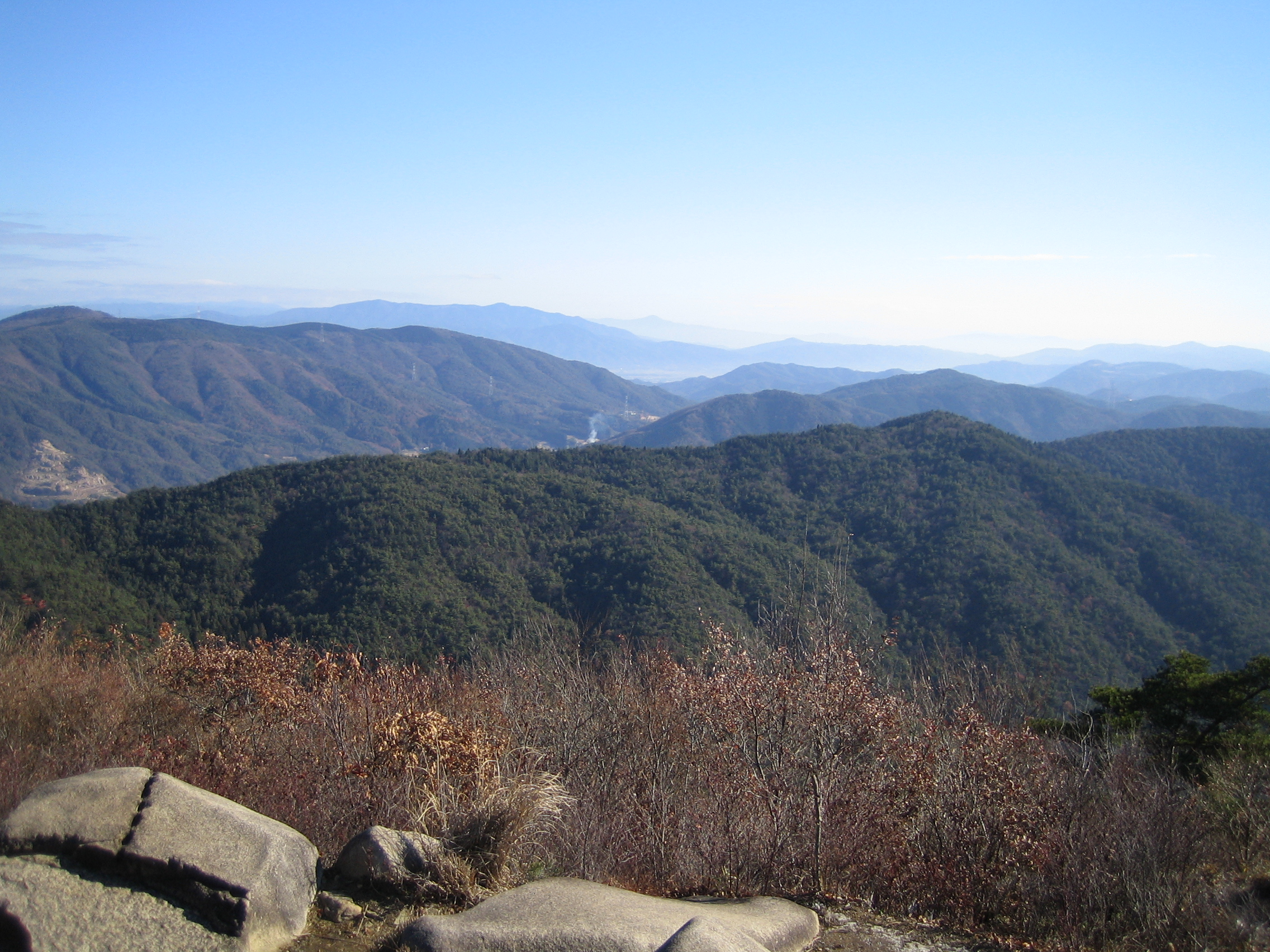 Looking ENE from Mount Kenpi